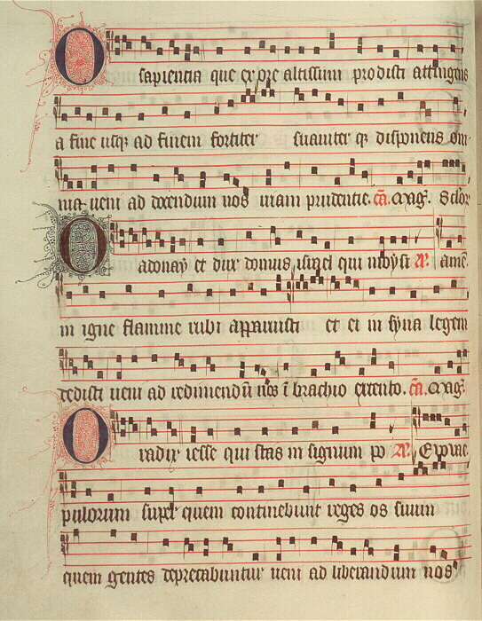 Verso of folio 30 from The Poissy Antiphonal, a certified Dominican antiphonal of 428 folios from Poissy, written 1335-1345, with a complete annual cycle of chants for the Divine Office (Temporal, Sanctoral and Commons) and a hymnal.